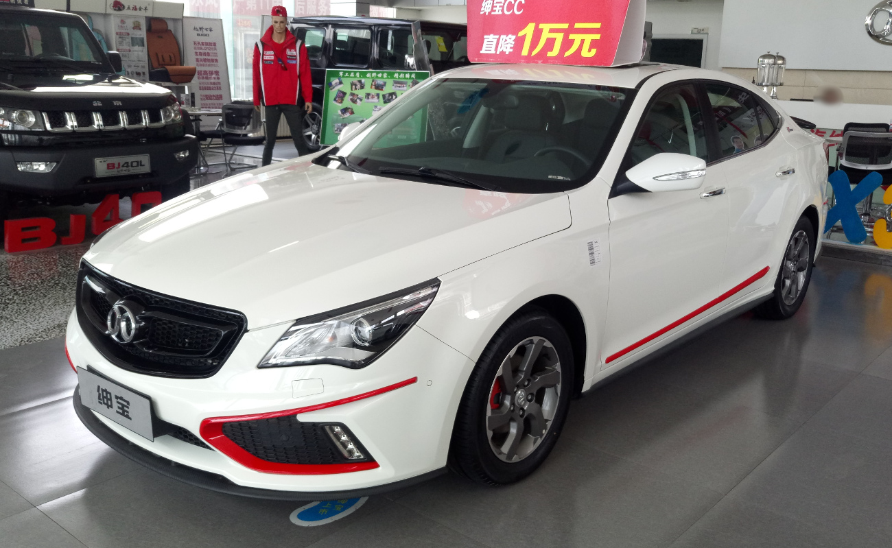 Senova CC photographed in Yinchuan, Ningxia province, China.